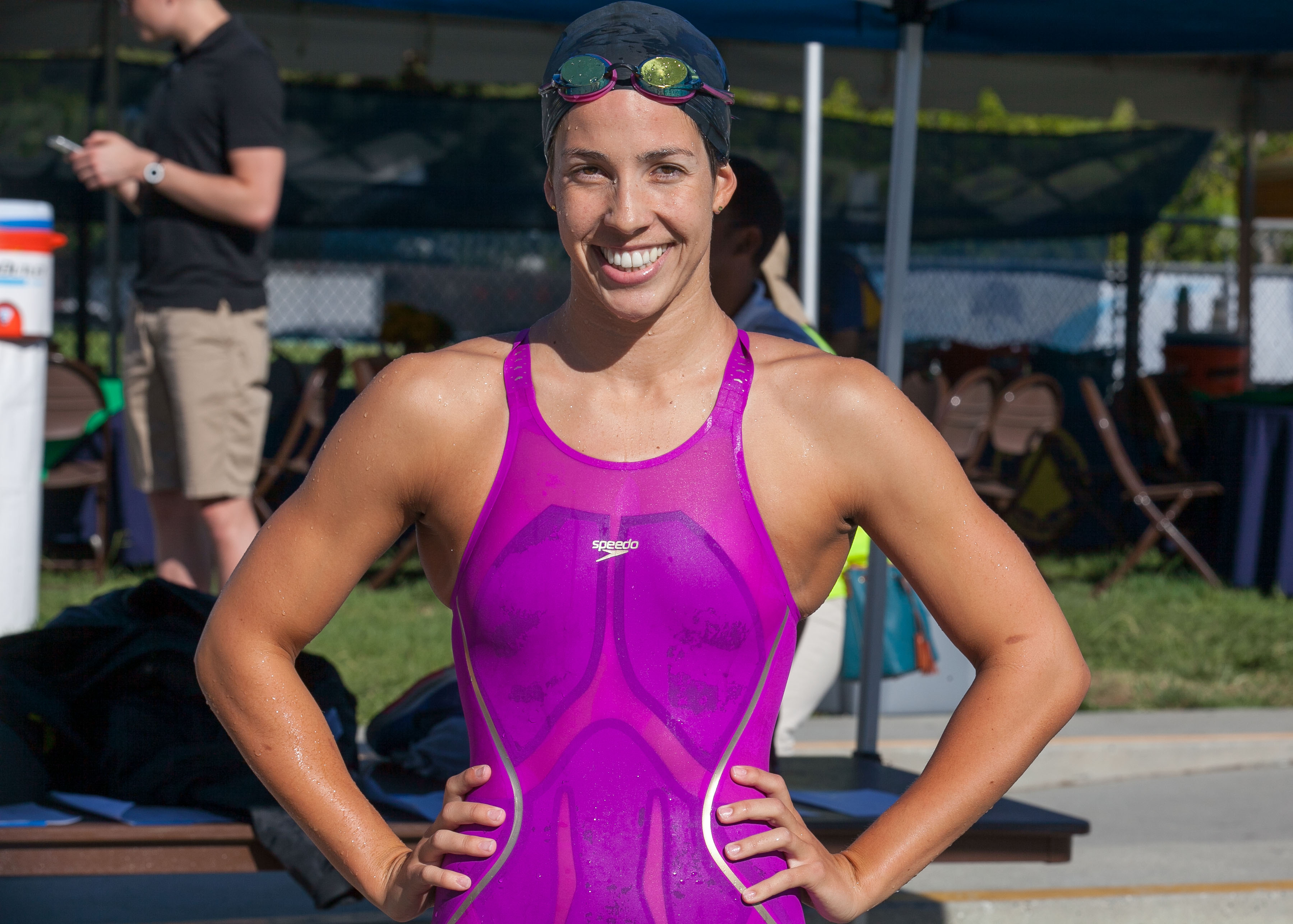 At the 2016 Santa Clara Arena Grand Prix. Noncommercial use only. Must credit: JD Lasica/Cruiseable